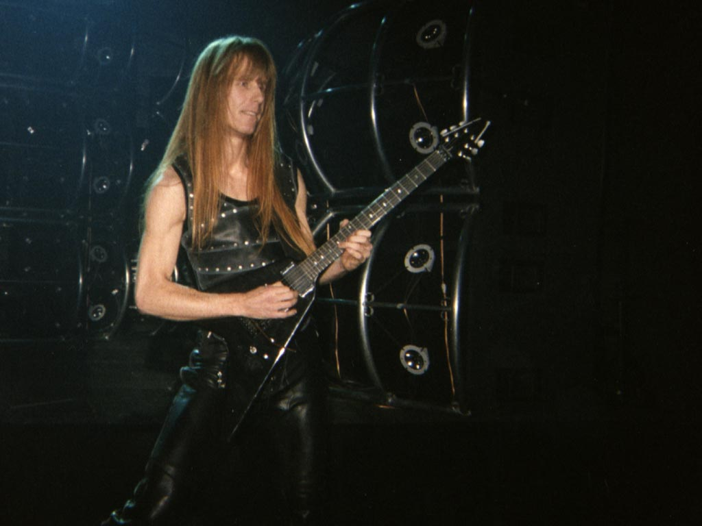 Karl Logan Manowar 2002 Bercy Paris live